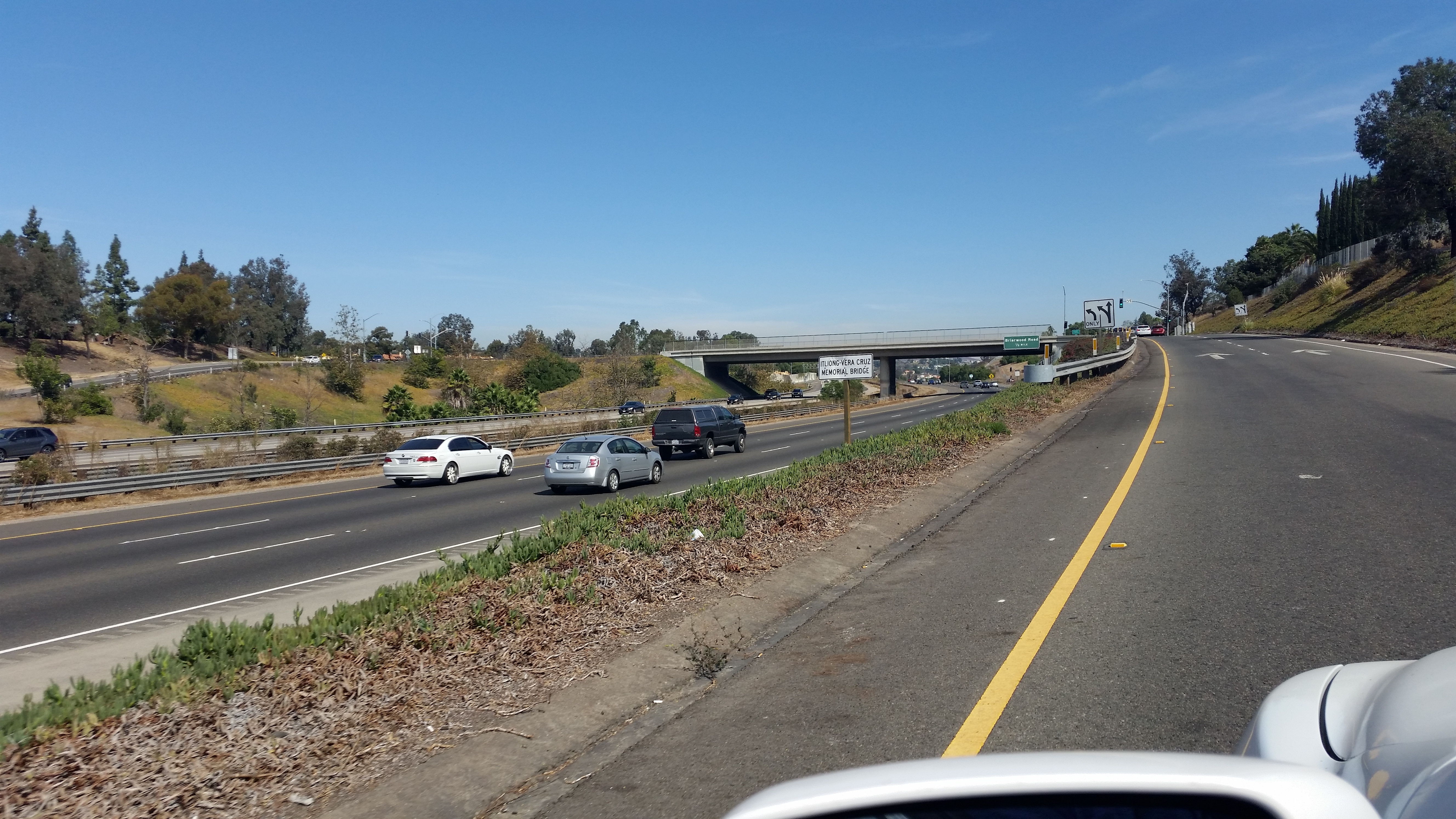 Itliong-Vera Cruz Memorial Bridge. California State Route 54.